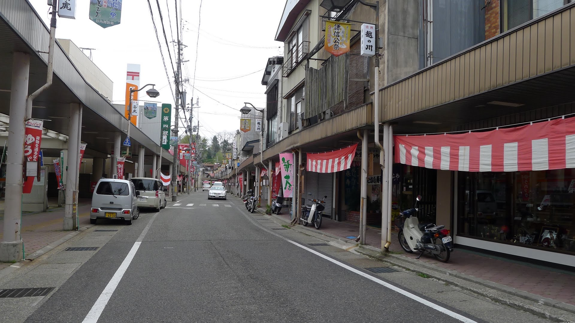 Yachi, Nagaoka, Niigata Prefecture, Japan